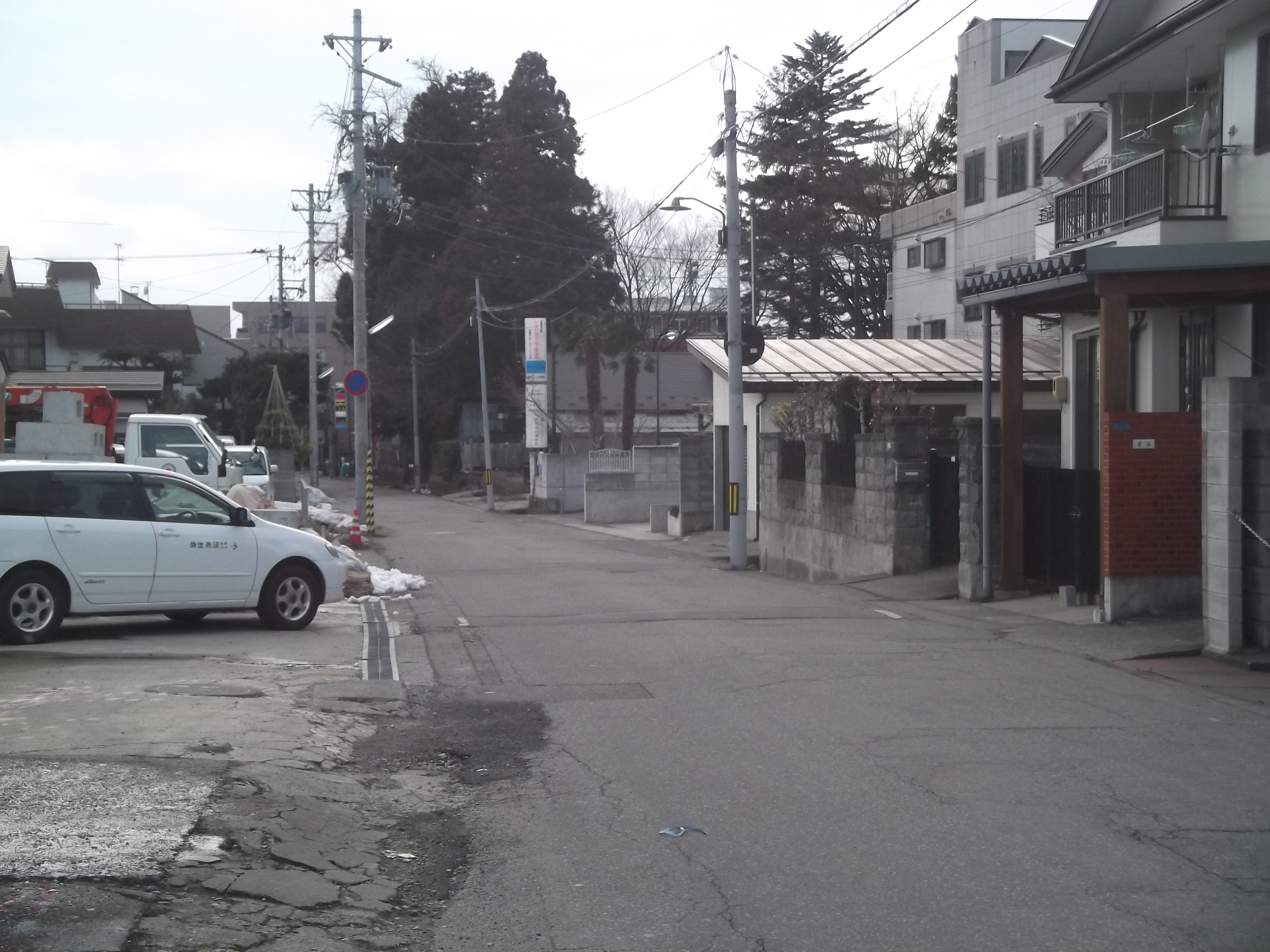 Landscape of Torimachi, Aizuwakamatsu, Fukushima.